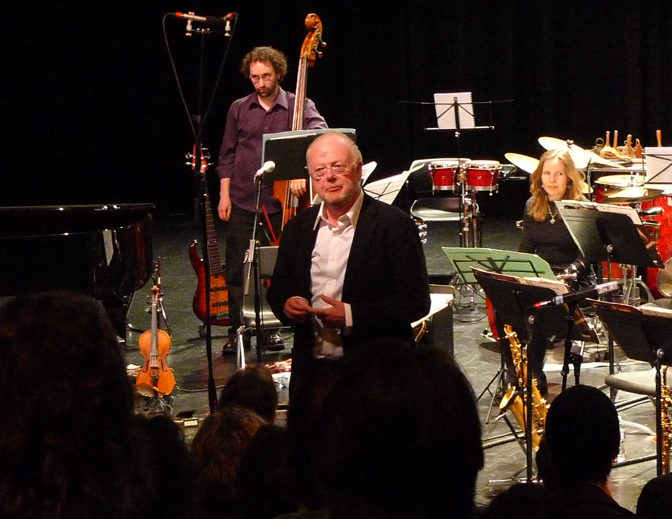 Hard Rubber Orchestra Presents: M is for Man, Music, Mozart at Roundhouse Community Arts & Recreation Centre A celebration to honour composer Louis Andriessen's (Netherlands) 70th birthday! Roundhouse Community Arts & Recreation Centre, Vancouver April 5, 2009